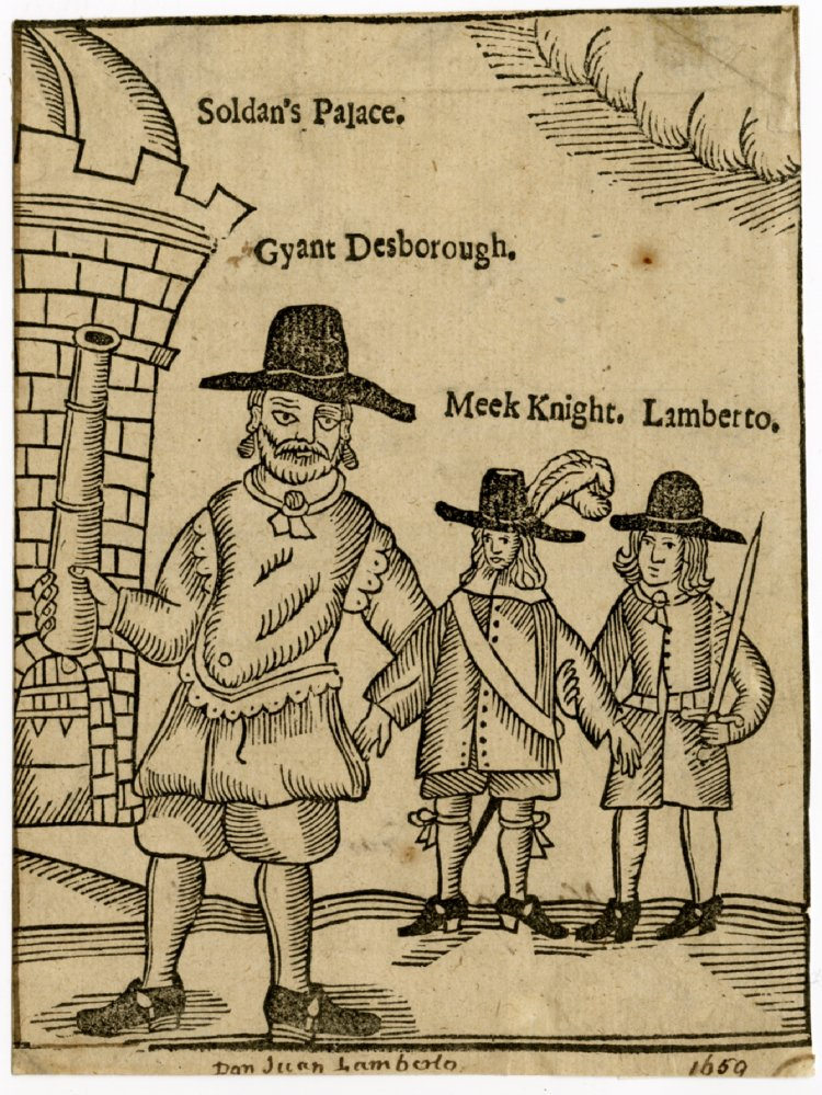 "Gyant Desbrough / Meek Knight / Lamberto," an illustration to 'Don Juan Lamberto,' 1661, an account of the fall of the Protectorate and the transfer of power to the Army. In the satirical print, a large man labeled 'Gyant Desborough' is seen standing in front of a tower labeled 'Soldan's Palace' (meaning the residence of Oliver Cromwell). Desborough is shown holding a cannon. To his side are 'Lambert' with a drawn sword, and between them is the figure of 'Meek Knight,'meant for Richard Cromwell. Woodcut. 143 mm x 110 mm. Courtesy of the British Museum, London.